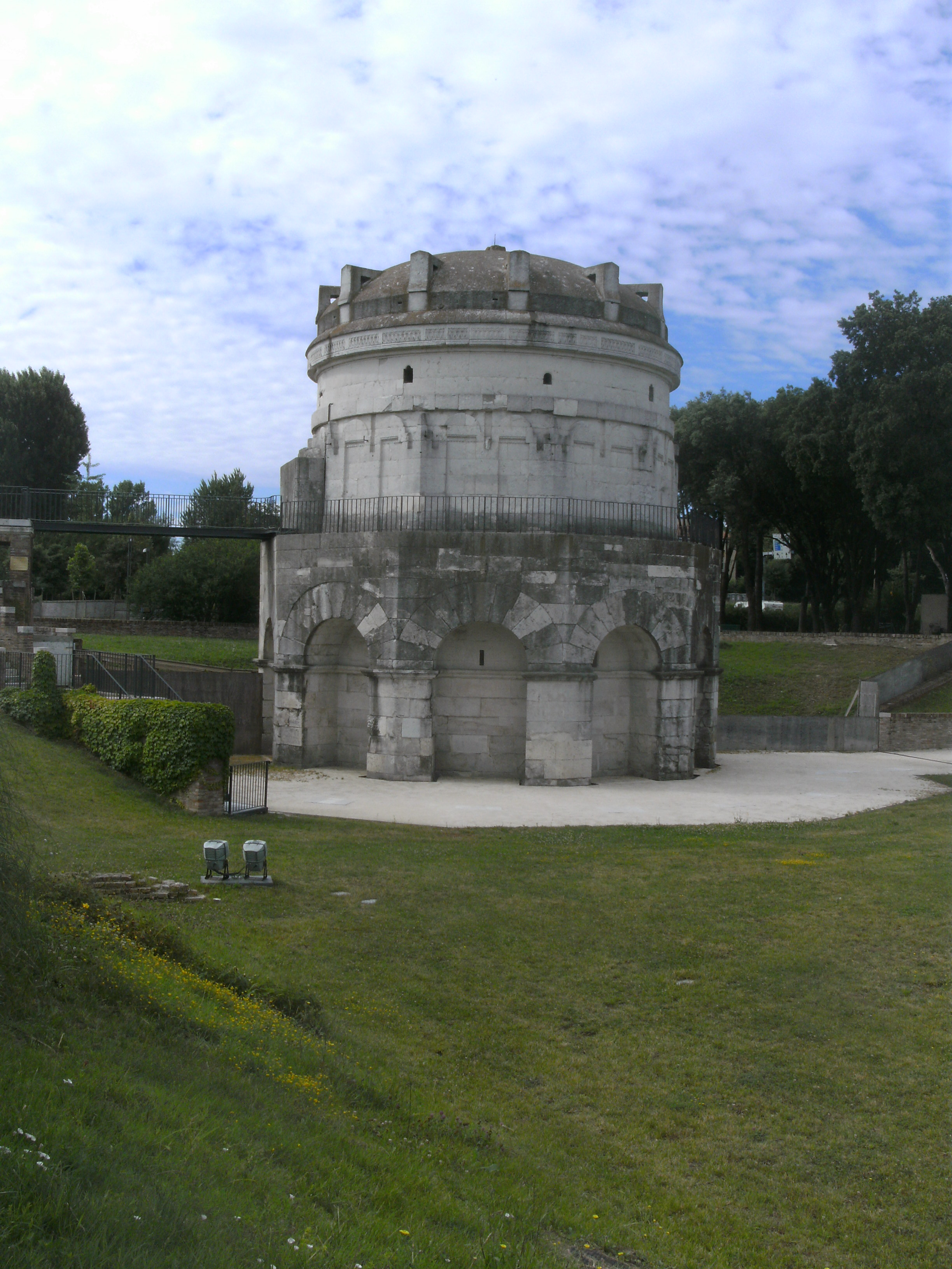 North side of the Mausoleum.